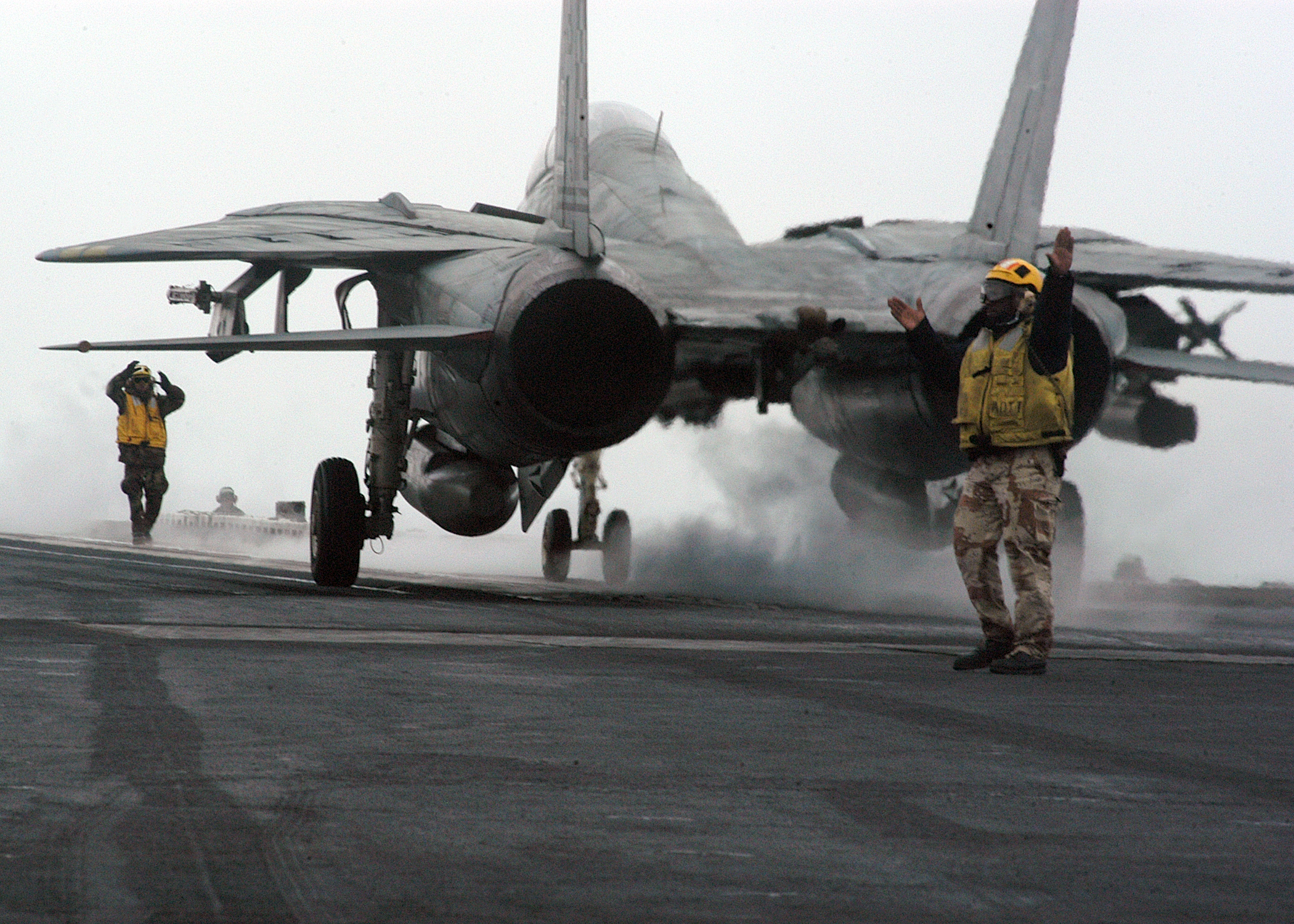 03 Arabian Gulf (Jan. 8, 2003) -- Flight deck personal direct an F-14 Tomcat assigned to the “Checkmates” of Fighter Squadron 211 (VF-211) to one of four steam powered catapults in preparation for launch, off of the flight deck aboard USS Enterprise (CVN 65). The Enterprise Carrier Strike Group (CSG) is deployed conducting missions in support of Operation Iraqi Freedom and the continued war on terrorism. U.S. Navy photo by Photographer's Mate Airman Jhi L. Scott. (RELEAS